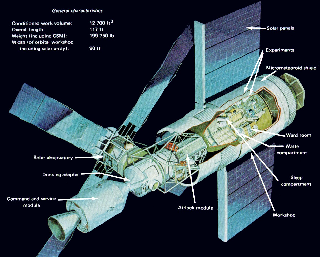 Skylab space station diagram.